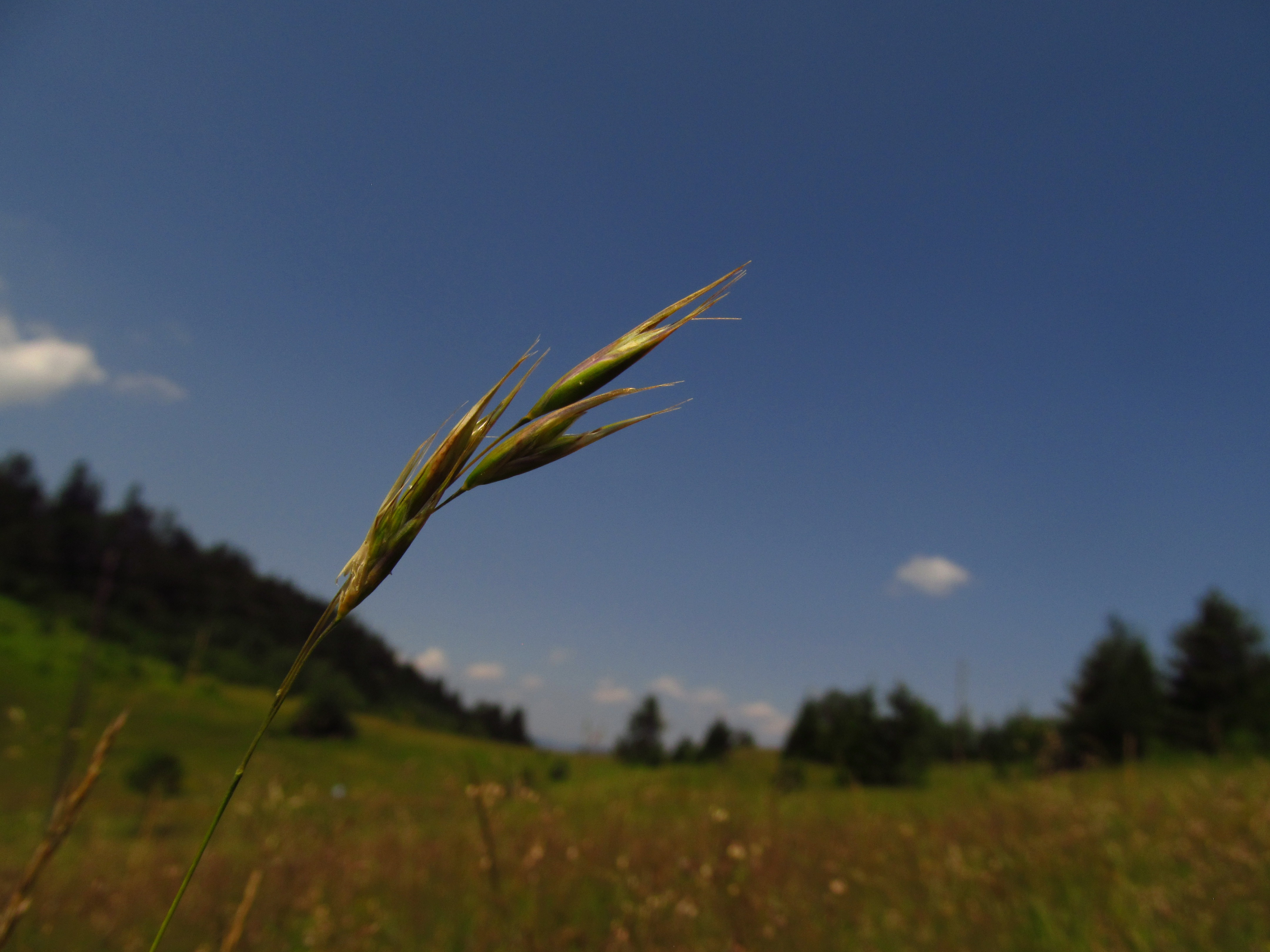 Oatgrass, heathgrass and wallaby grass